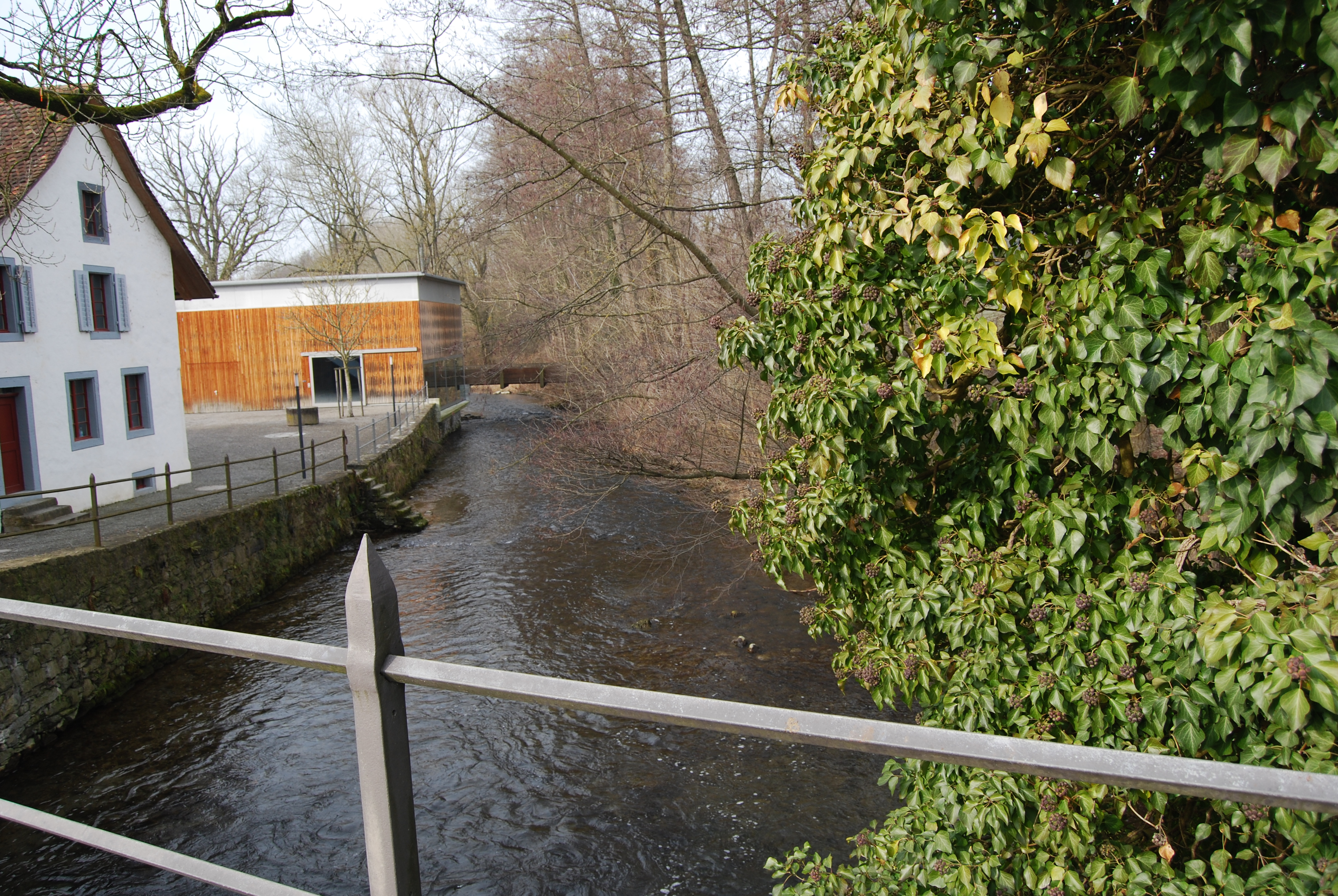 River Aabach, boundary between Boniswil (left side of picture) and Seengen (right side of picture), canton of Aargau, SwitzerlandEsperanto: Rivero Aabach, limo inter Boniswil (maldekstre en la bildo) kaj Seengen (dekstre en la bildo), Kantono Argovio, Svislando